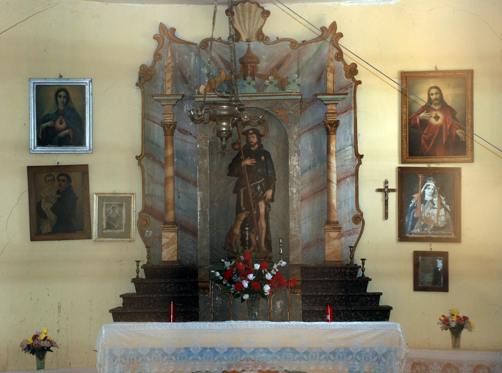 Hermitaque interior of San Roque in San Martín del Monte (Palencia, Castile and León).